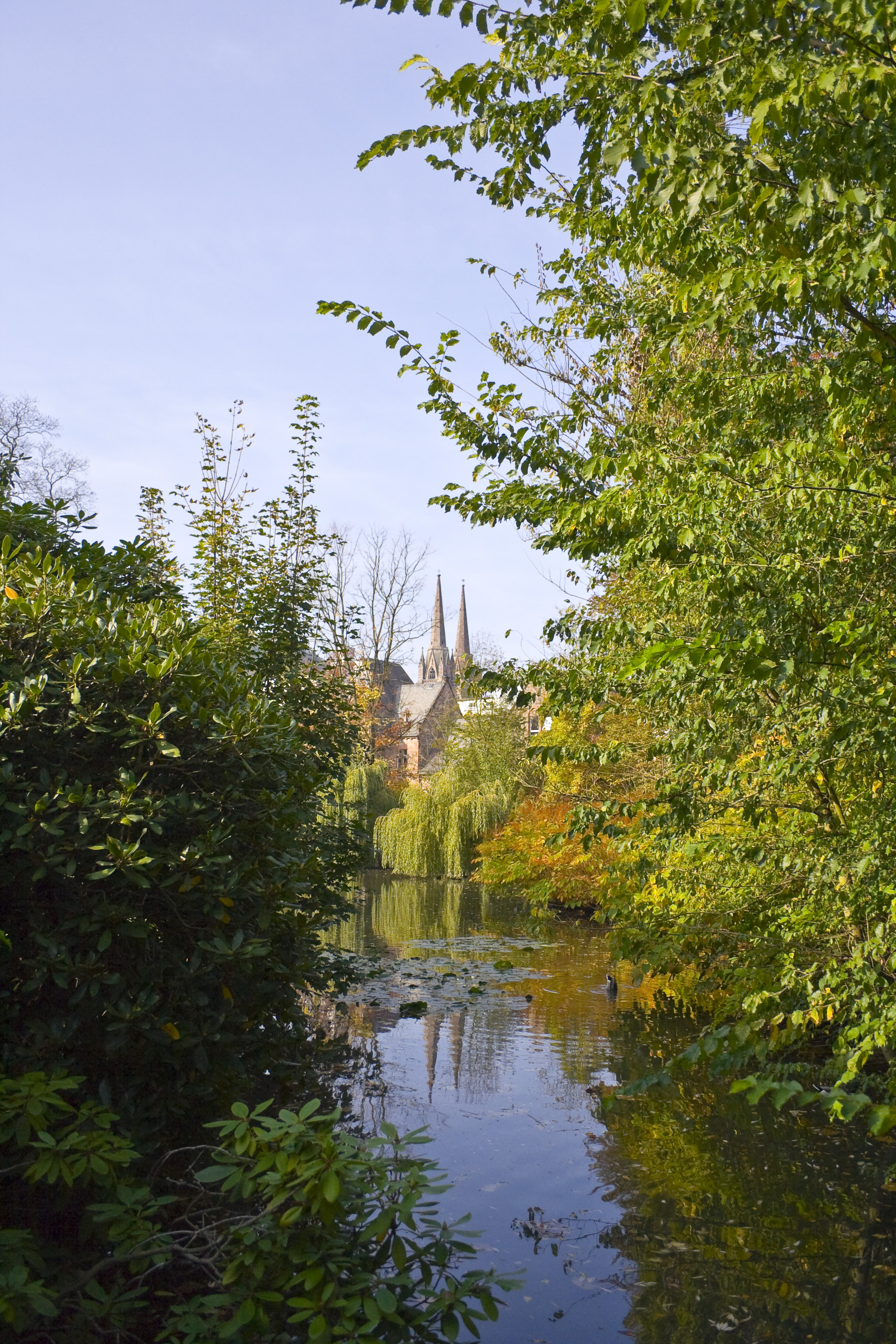 Old botanical garden Marburg